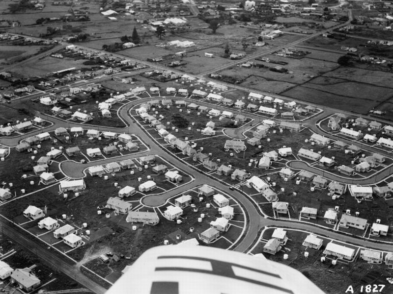 New state houses in the 'Harp of Erin' estate of Oranga, Auckland City, New Zealand. Aerial photograph taken in 1947. Note the typical cul-e-sac patterns and the lack of any mature vegetation in this brand-new development area. Coordinates recreated by matching street patterns visible in the photograph to modern maps/aerial - may be slighty off by maybe 100m. Extended information on origin webpage reads: Aerial view of state houses at the Harp of Erin Estate, Oranga, Onehunga, Auckland [ca 8 October 1947] / Reference number: PAColl-6203-07 / 1 b&w original photographic print(s). Silver gelatin print. Horizontal image. / Part of New Zealand Free Lance : Photographic prints and negatives (PA-Group-00079) / Part of New Zealand Free Lance original photographic prints, from the file print collection, Box 3 (PAColl-6203) / Scope and contents: Aerial view of state houses at the Harp of Erin Estate, Oranga, Onehunga, Auckland, circa 8 October, 1947. Photographer unidentified. / Notes: Note on back of file print reads "P8/10/47" (Published in the New Zealand Free Lance on the 8th of October, 1947) / Other copies available: File print available in Turnbull Library Pictures11. Auckland. Oranga. 1947(PFP-019291)